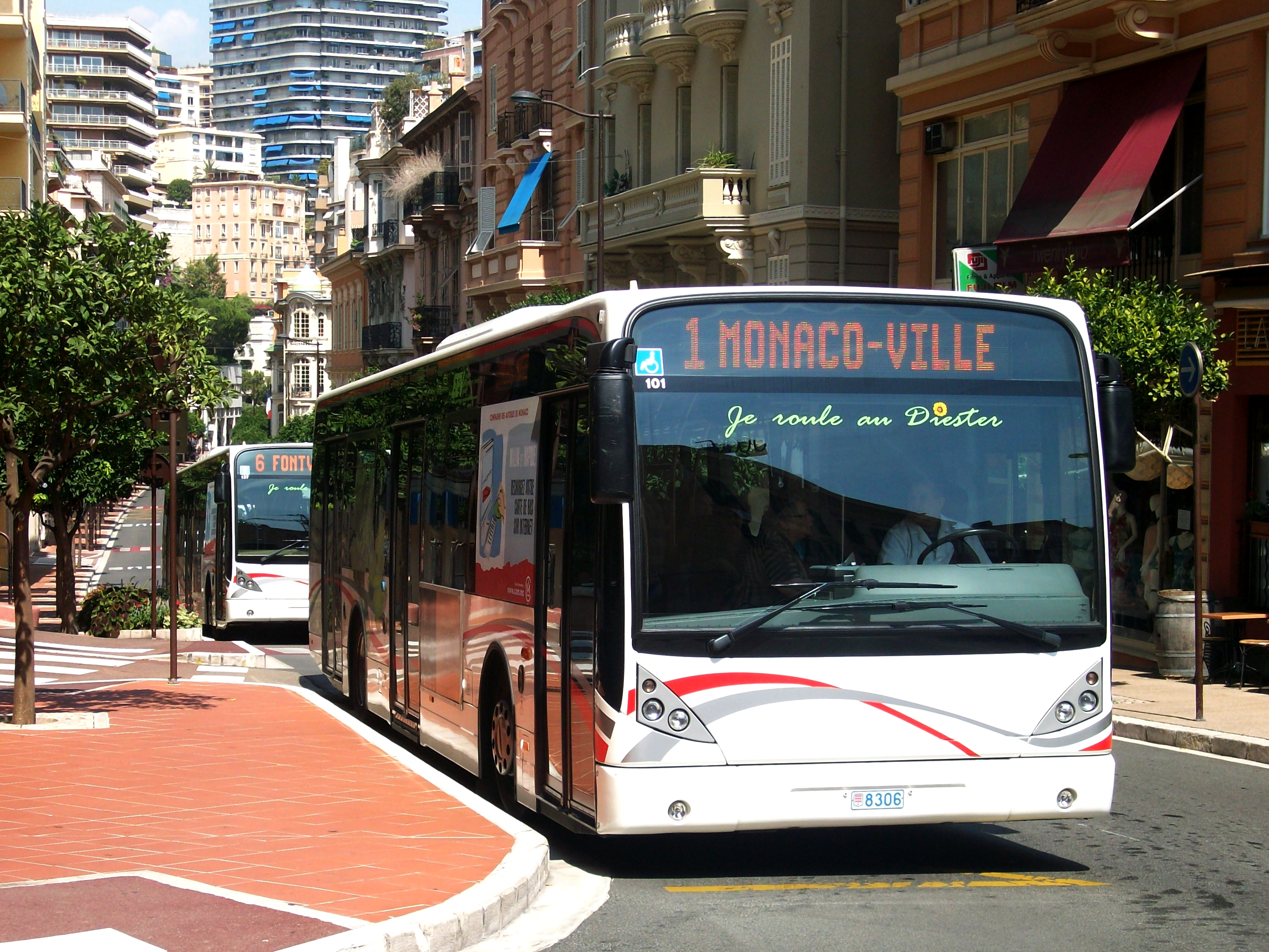 Bus CAM, Monaco